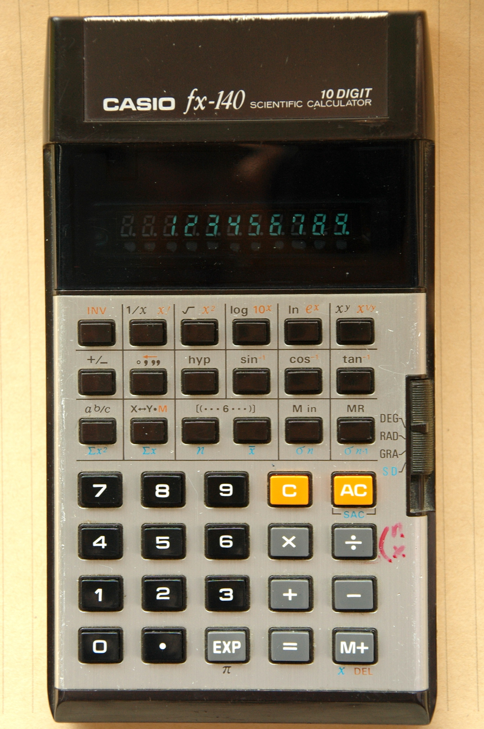 Casio fx-140 scientific calculator with 10-digit vacuum fluorescent display. It runs on two AA batteries. Production started from 1978 and ended in 1982.